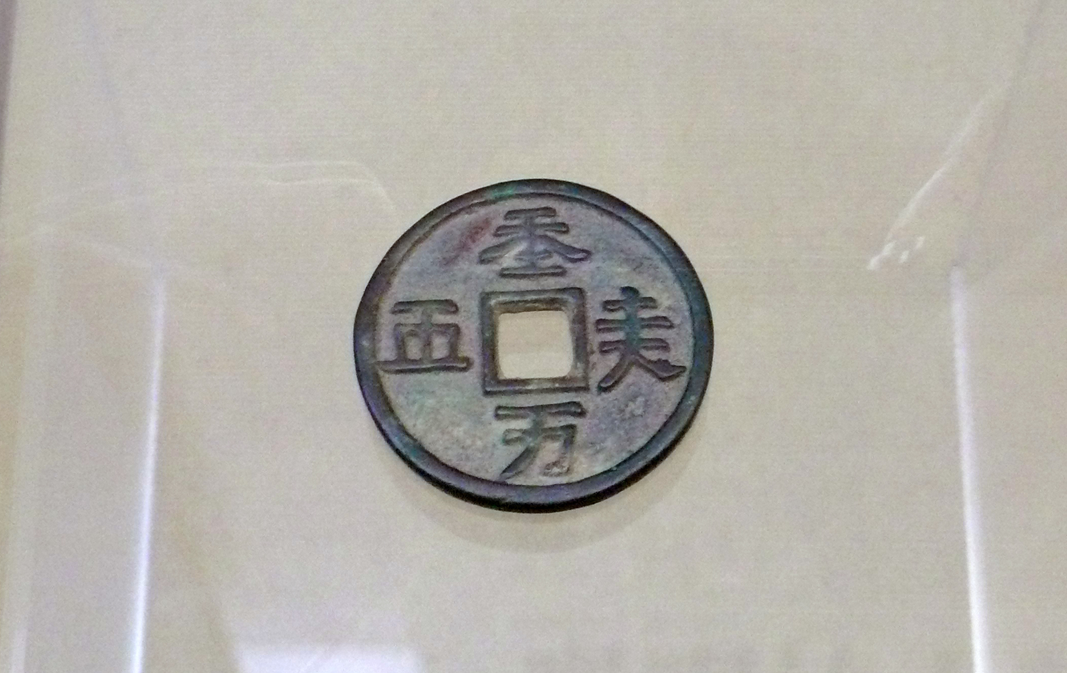 A coin with Khitan large script. Collected by National Museum of Chinese Writing.